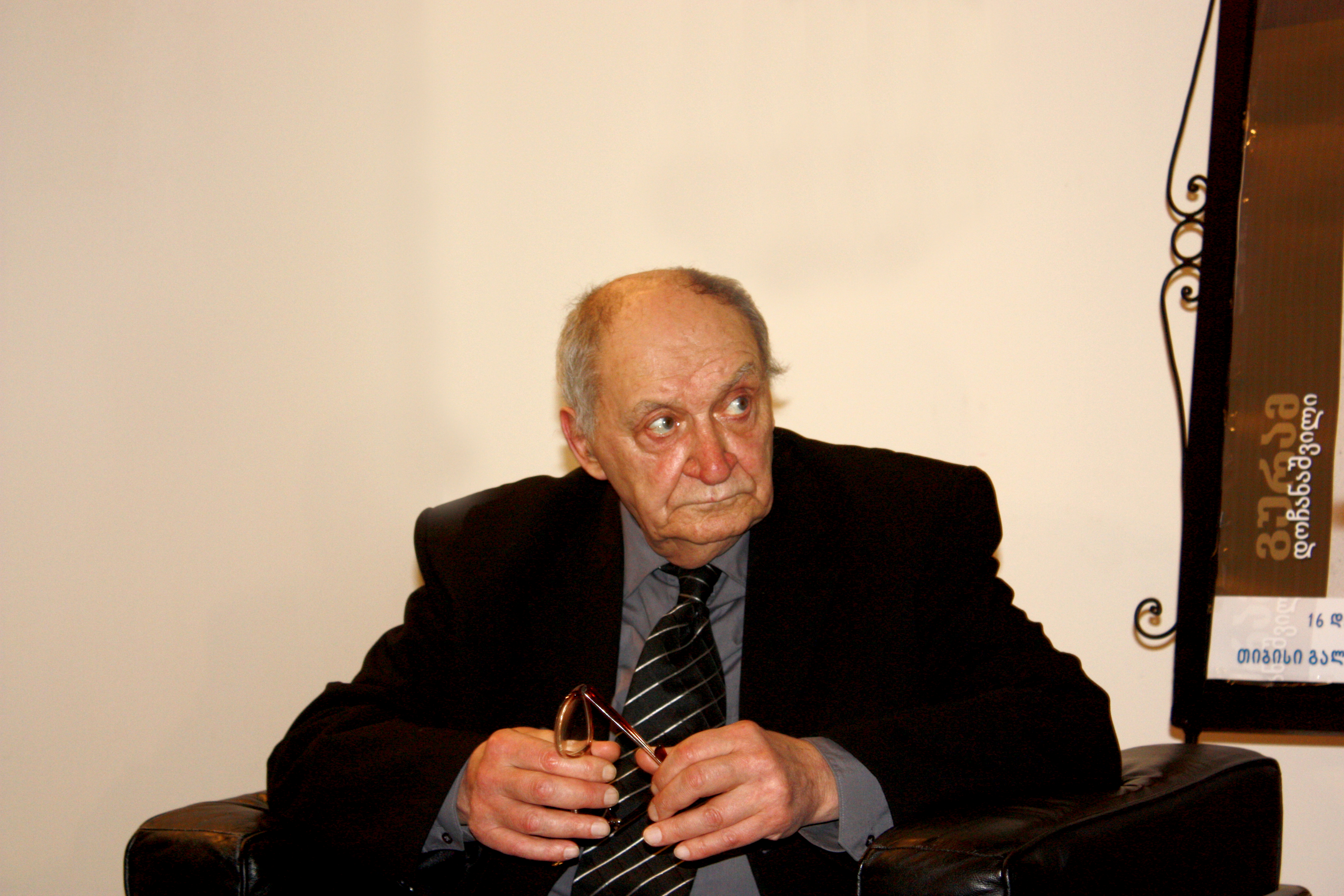 The photo of Guram Dochanashvili, one of the greatest modern Georgian writer